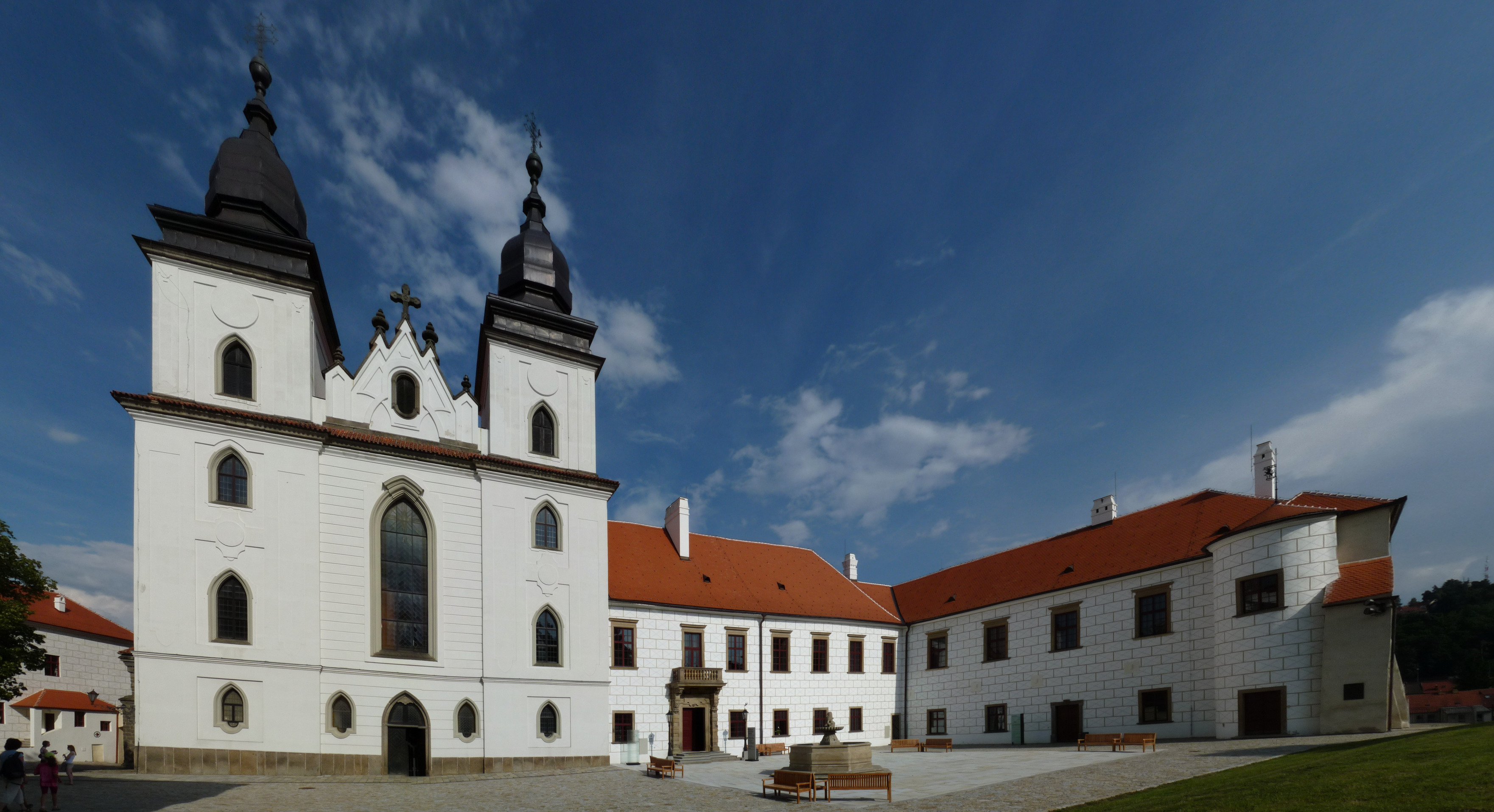 Basilica of Saint Procopius in the town of Třebíč, Vysočina Region, Czech Republic.